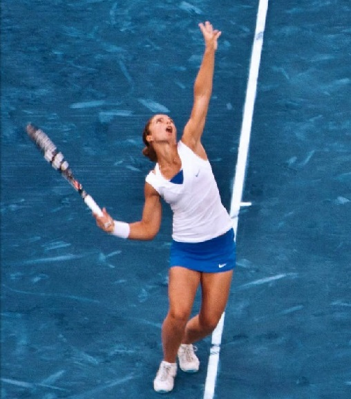 Sara Errani, Madrid-Masters 1000, Spain (2012)